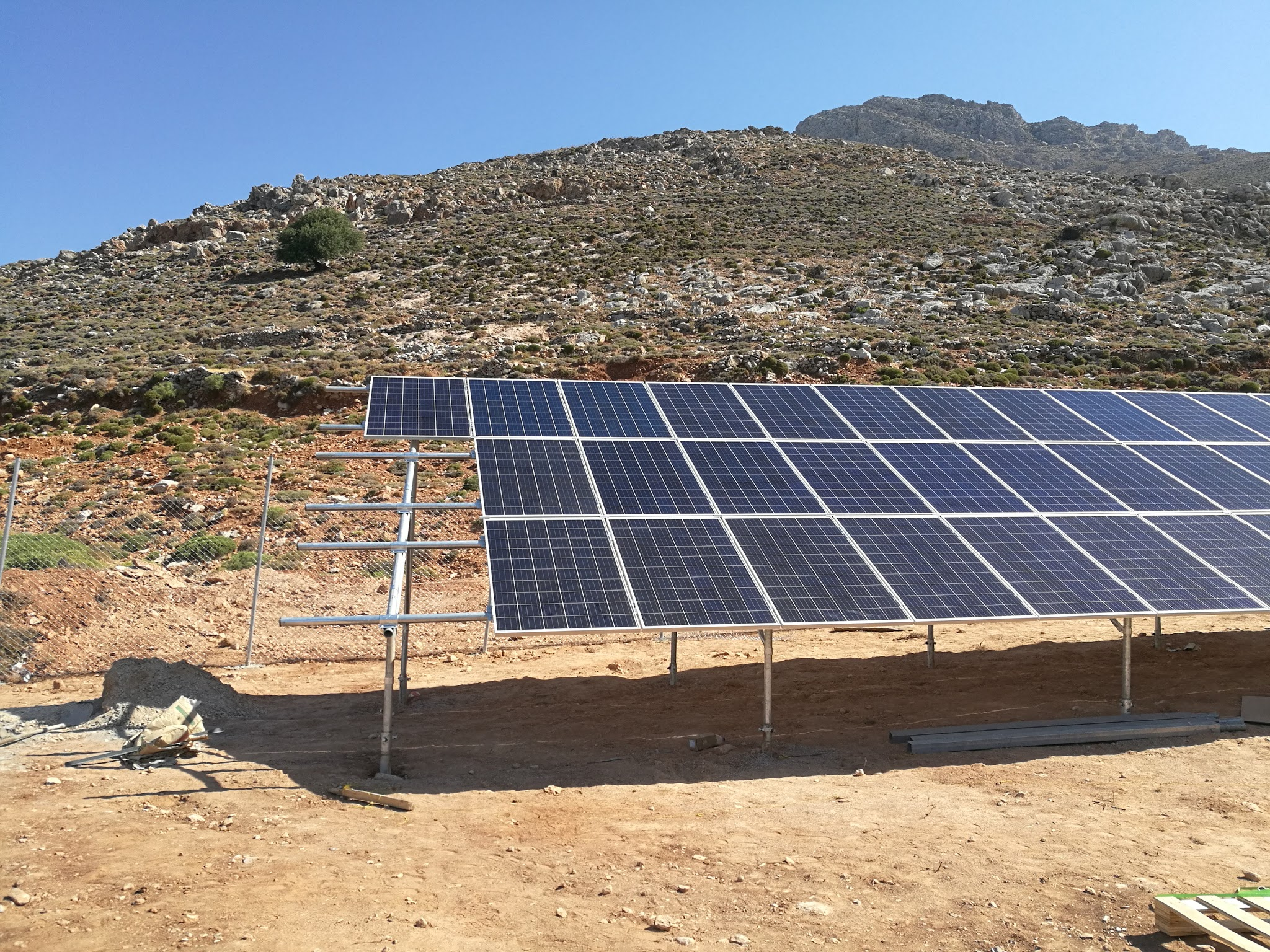 Solar power plant on the Island Tilos (Greece).